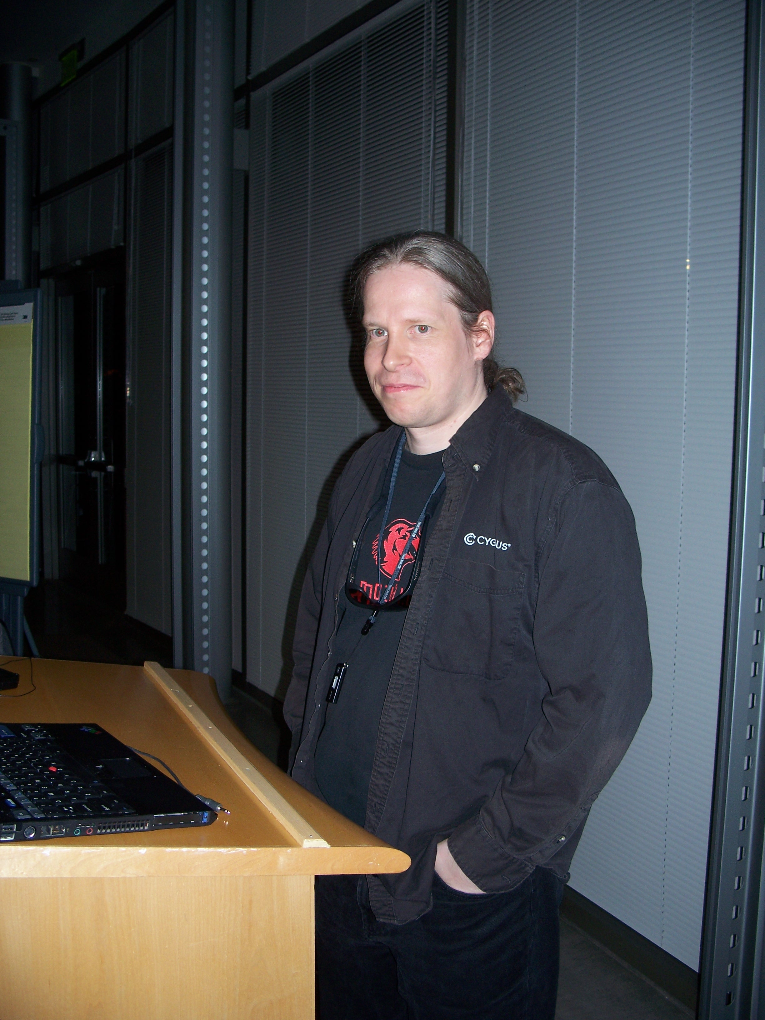 Ulrich Drepper on SVLUG meeting